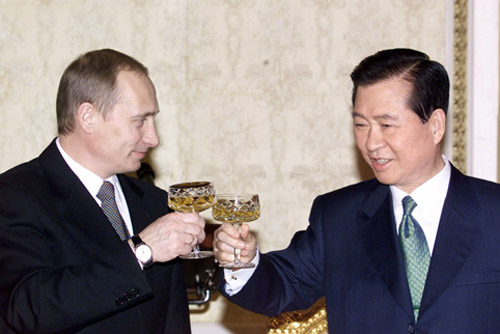 SEOUL. President Putin at a gala reception given by South Korean President Kim Dae-jung.